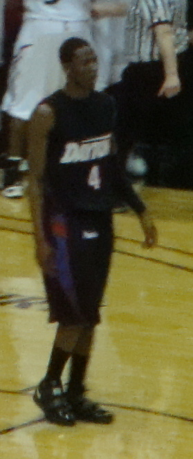 Chris Johnson of the Dayton Flyers